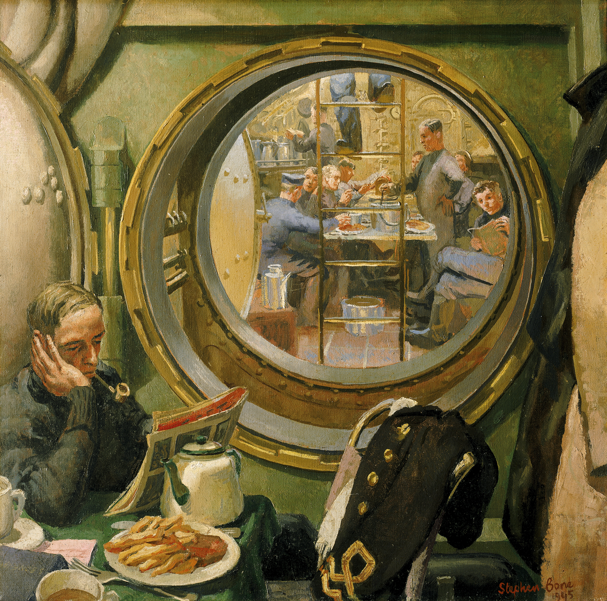 Bone, Stephen; S-Class Submarine:The Wardroom and Forward Mess Deck Seen through the Davis Escape Chamber; National Maritime Museum